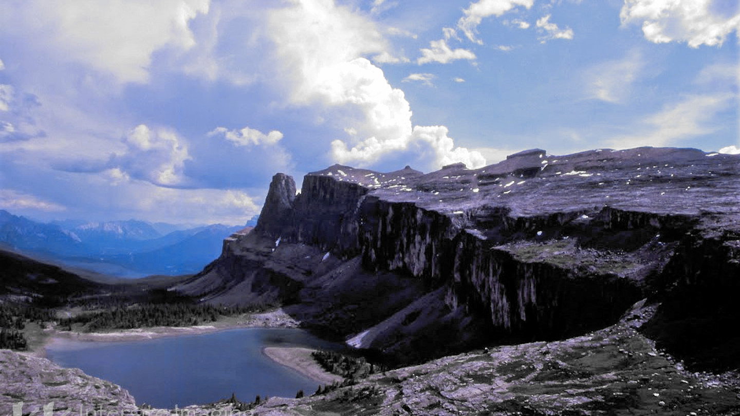 Castle Mountain. above Rockbound Lake, a great day hike. That's Eisenhower Tower at far end of the mountain.